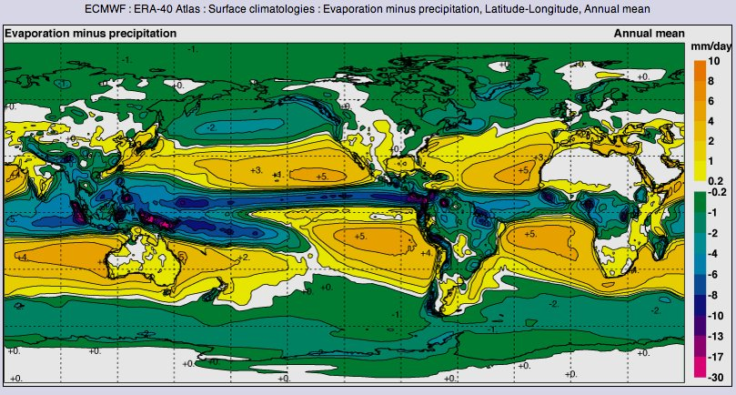 Global map of Annual mean Evaporation minus precipitation by Latitude-Longitude